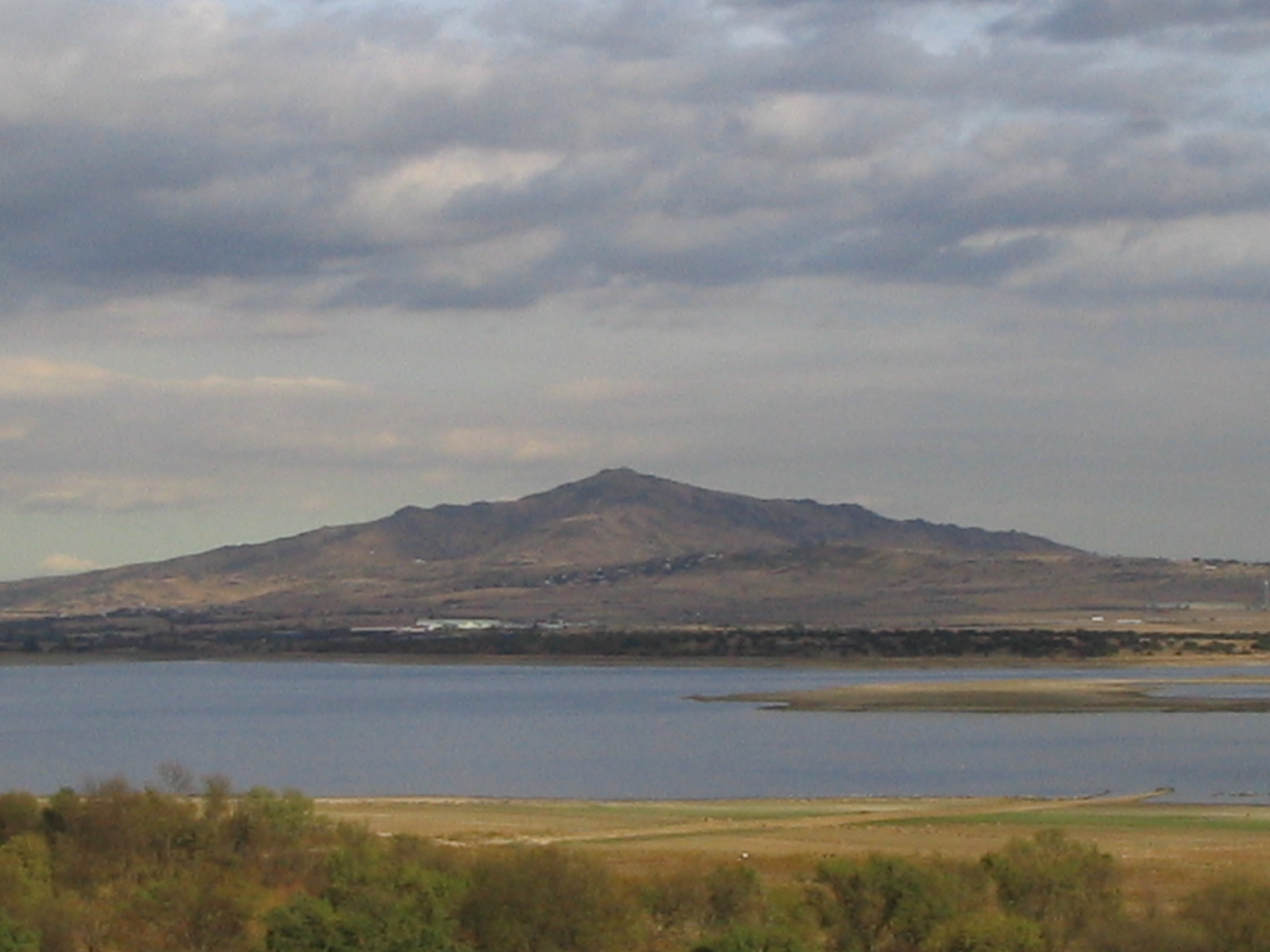 San Pedro mountain in Madrid.